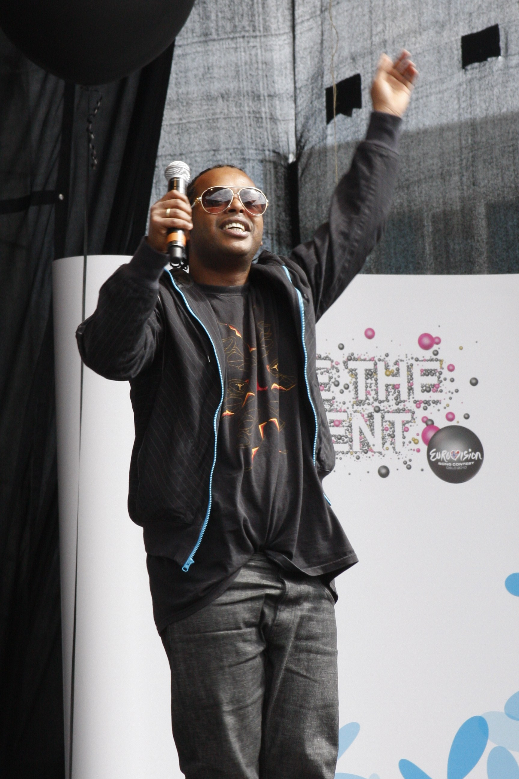 Yosef Wolde-Mariam at stage at Fornebu, Norway. Telenor Culture Program.